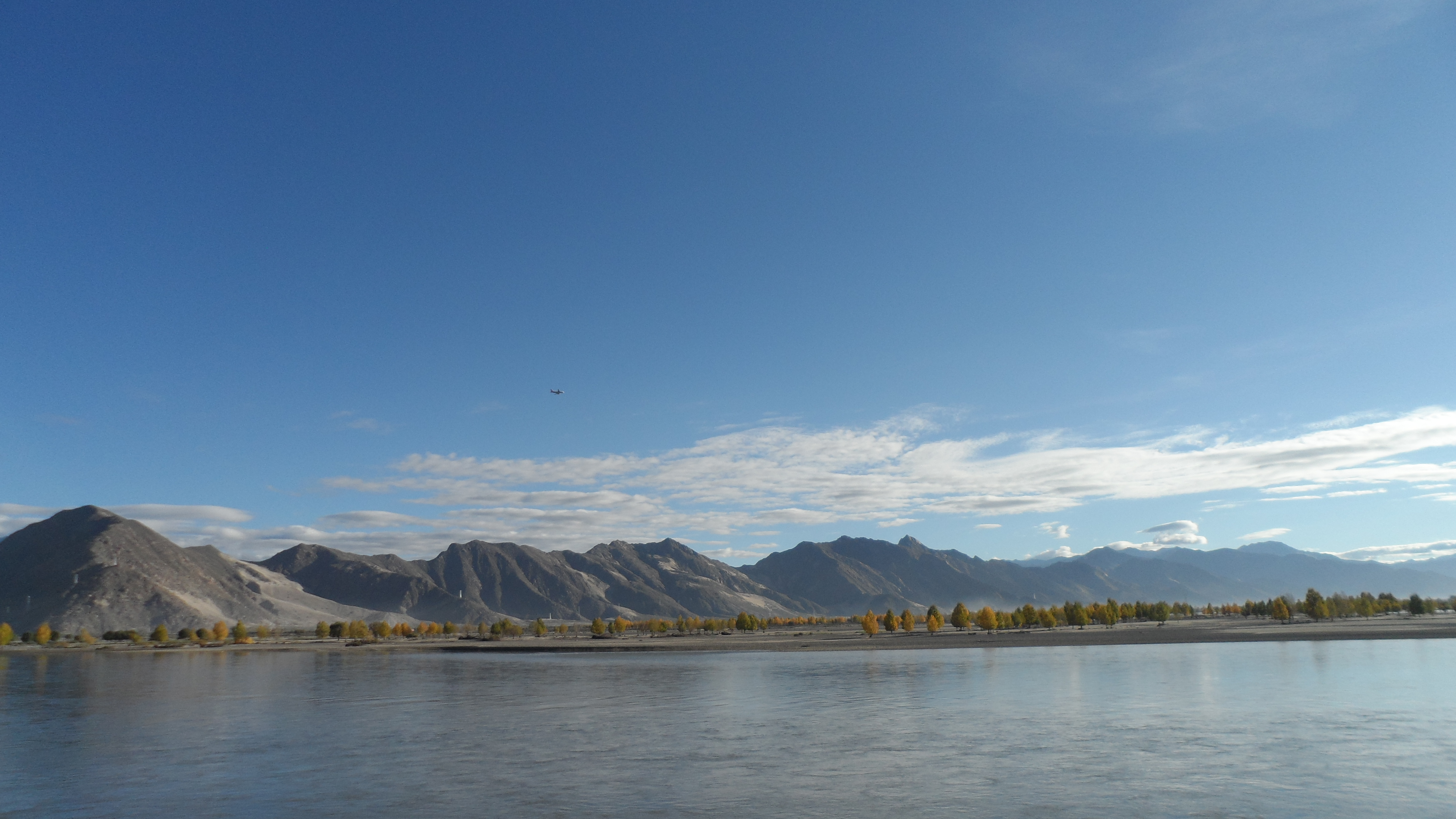 Yarlung Tsangpo in the suburb of Lhasa